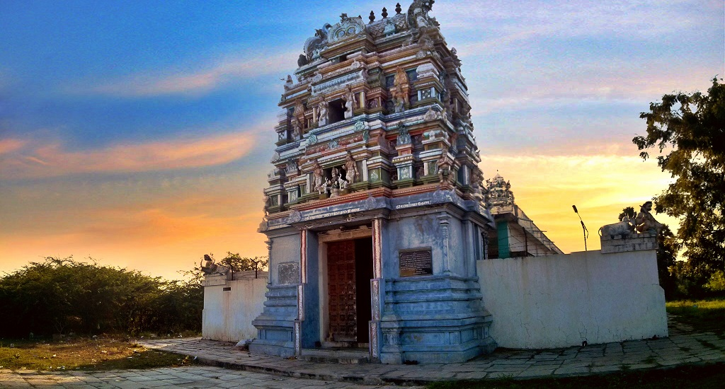 Temple of Sri Kadukavalar in Mampatti Village of Tirupattur Taluk, Sivagangai District in Tamilnadu.